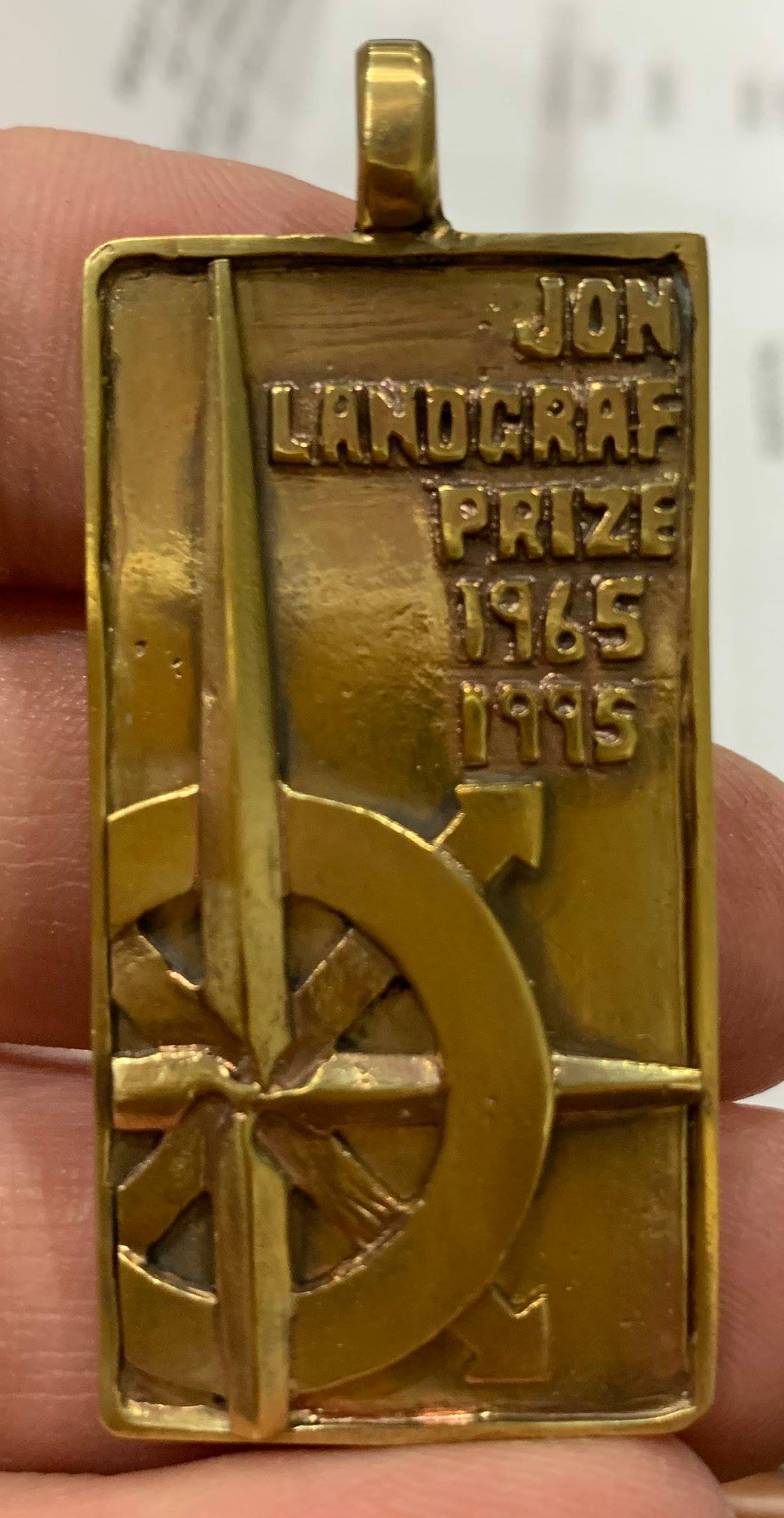 The Jonathan Zerse Landgraf Medal is awarded annual by each Lair to the winner of its Mass Challenge competition.